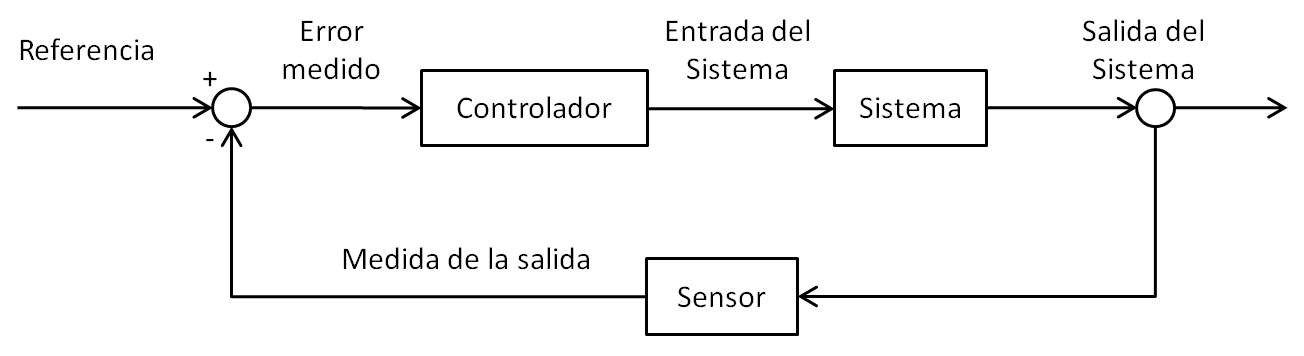 Feedbback Loop